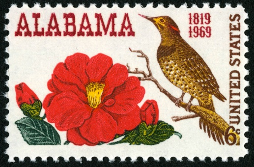 Alabama’s statehood 150th anniversary was celebrated with a 6-cent stamp on August 2, 1969 at Huntsville, the first temporary seat of government. The state flower, the camellia, and the state bird, the yellowhammer, are featured.